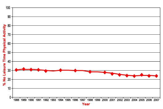 US 1988–2007 No Leisure-Time Physical Activity Trend Chart